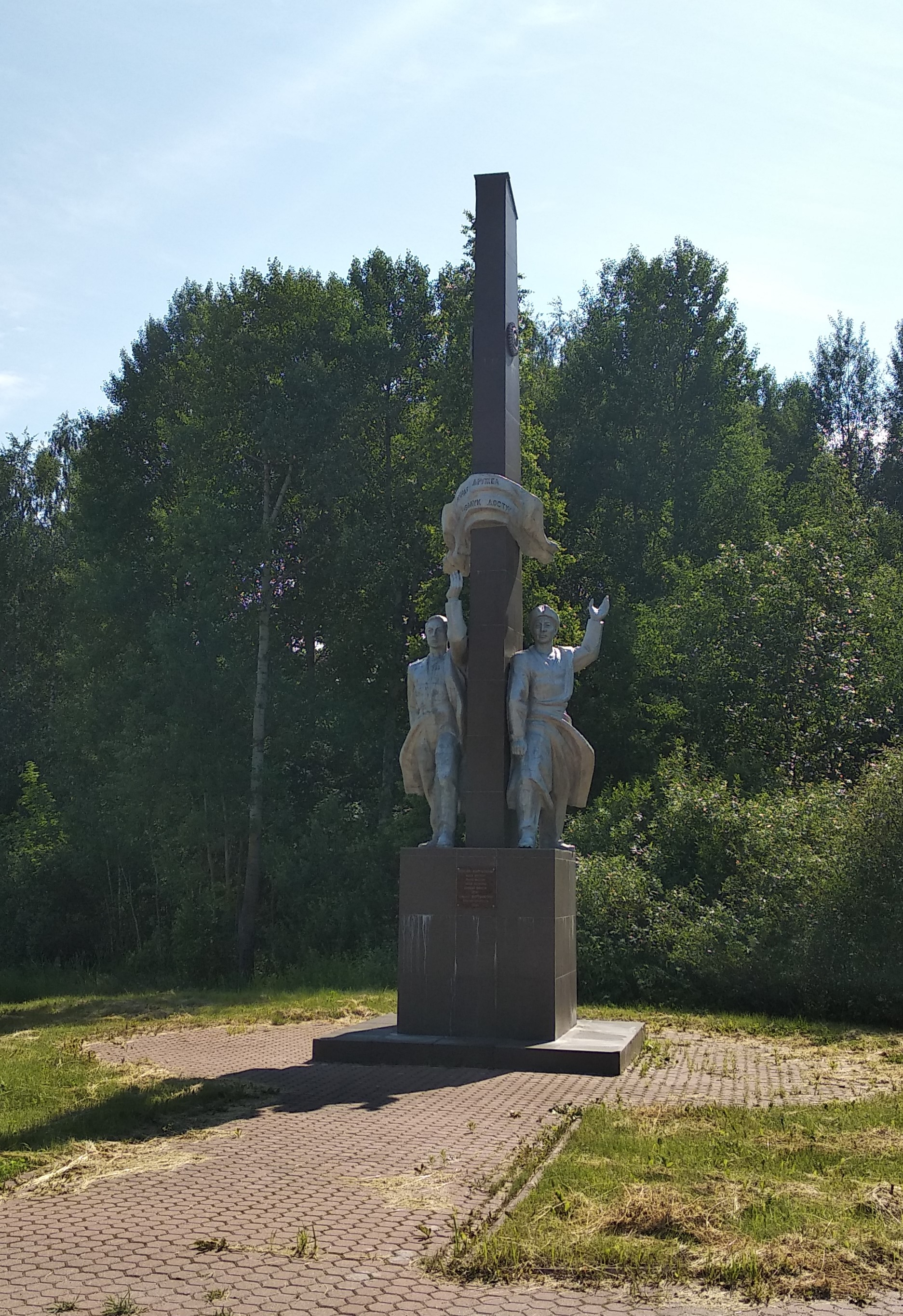 Monument to Russian-Kyrgyz friendship on the turn to the Shurskol village (Yaroslavl Oblast, Russia)